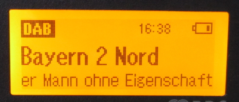 Dynamic Label of a radio station via DAB; presentation as ticker at the bottom.